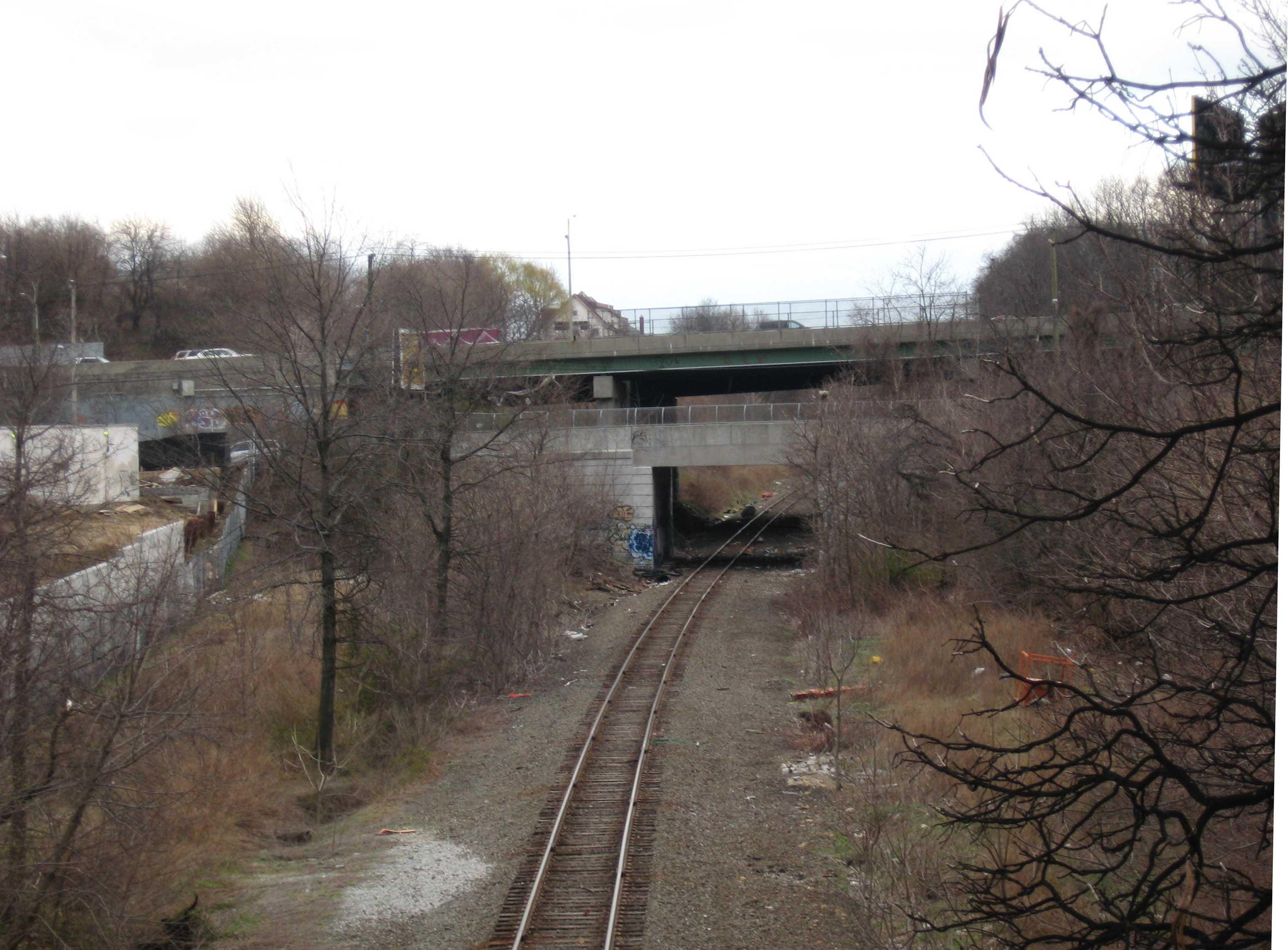 Single track New York Connecting Railroad, passing under 57th Ave and Long Island Expressway, as seen looking south from Grand Avenue overpass, northeast of Maspeth, Queens, on a cloudy afternoon in early spring. ZIP 11373.